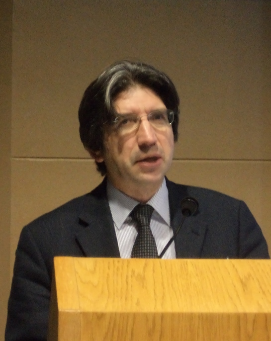 Public lecture by Prof. Dan J. Stein on "Stress and Aging: An Integrative Approach", given in Sport Science Institute of South Africa on 4 September 2013.